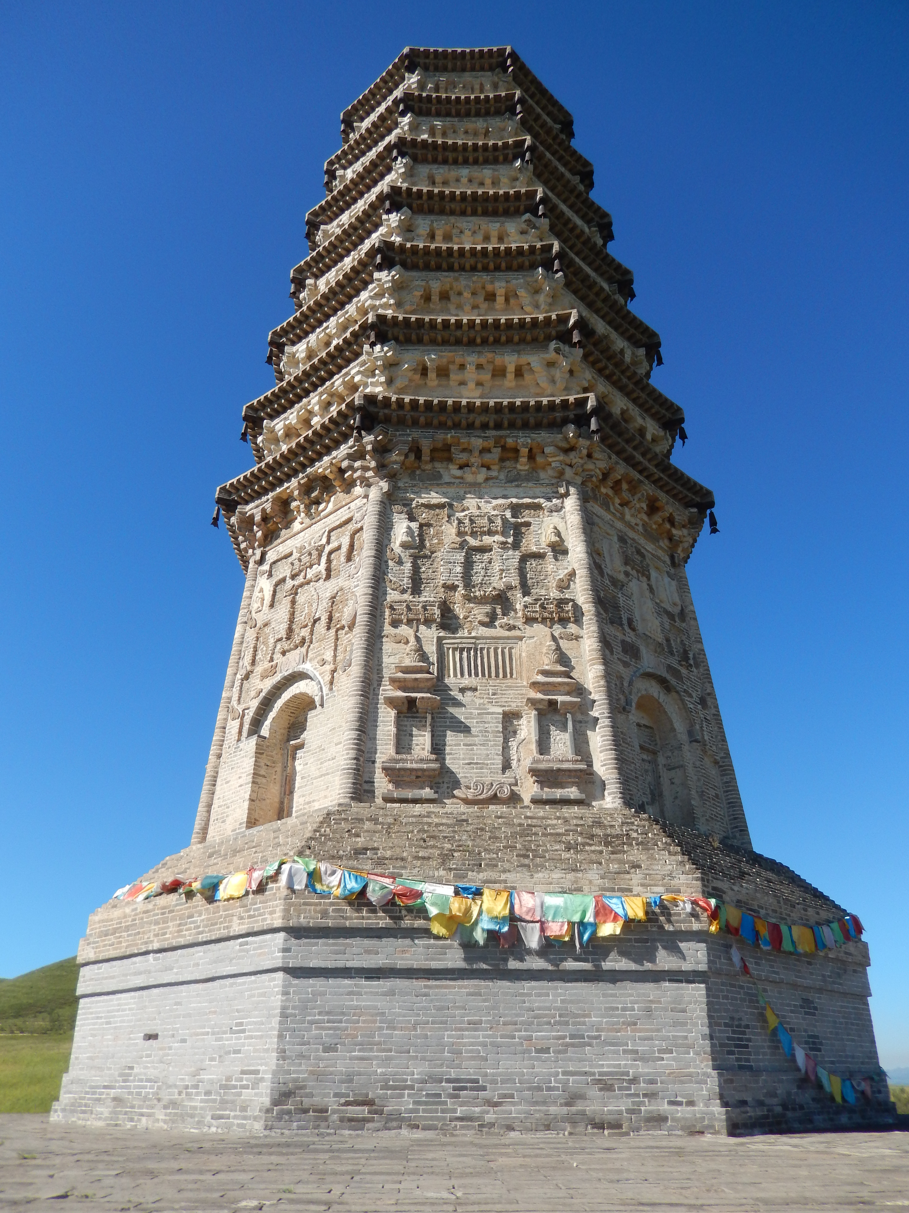 The Liao dynasty South Pagoda, at Lindong, Bairin Left Banner, Inner Mongolia.